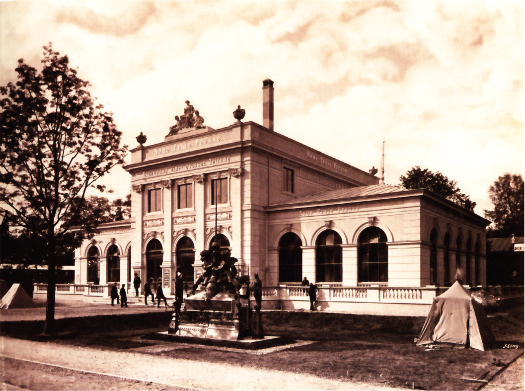 Pavilion of the newspaper Neue freie Presse at the world's fair 1873